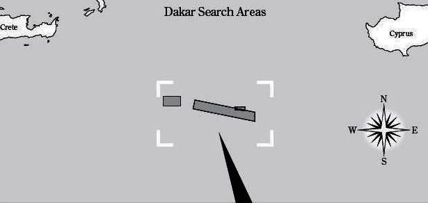 The planning for Dakar wreck, deepwater search 1997